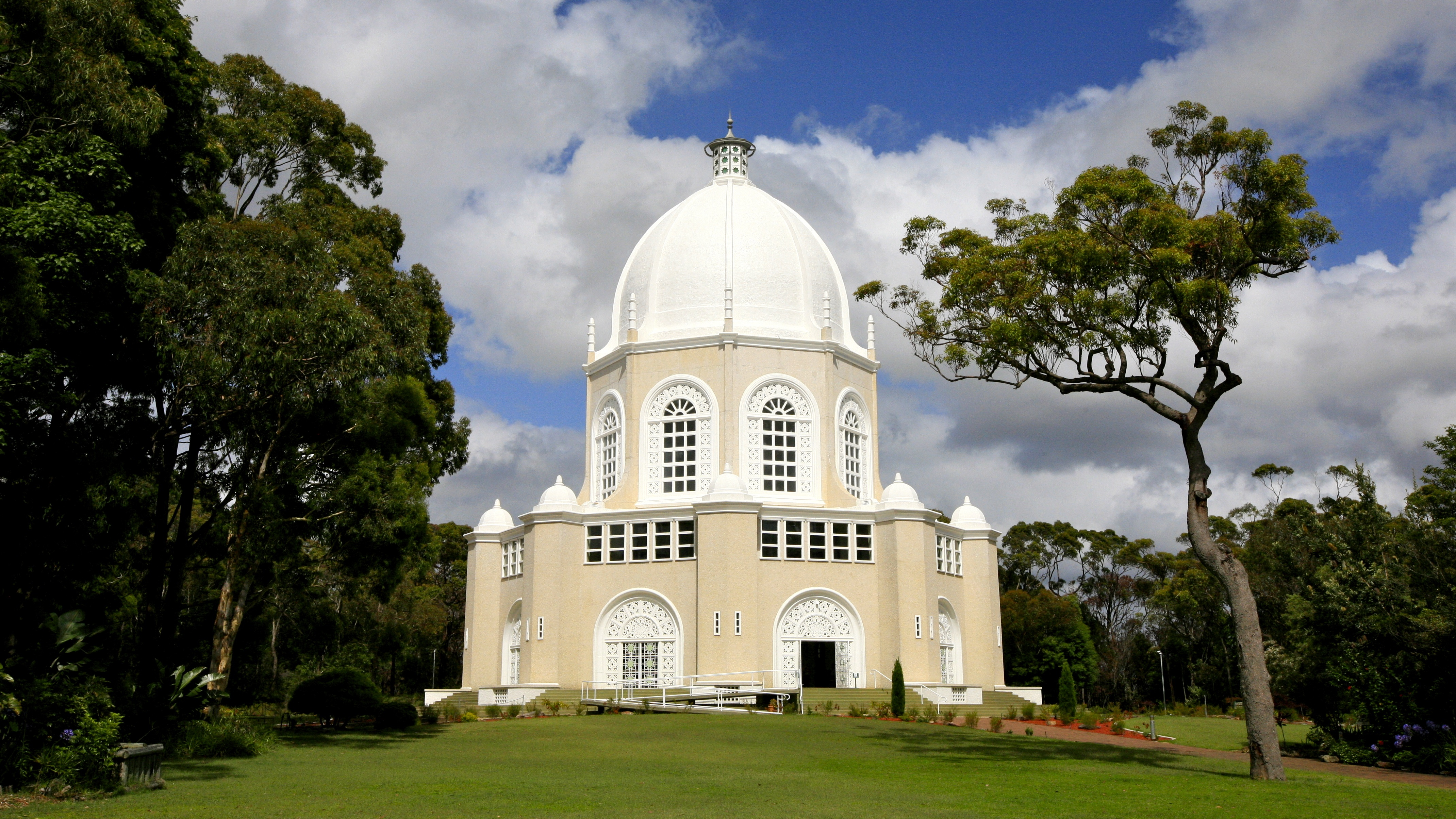 Baha'i Temple in Ingleside, Sydney, New South Wales, Australia